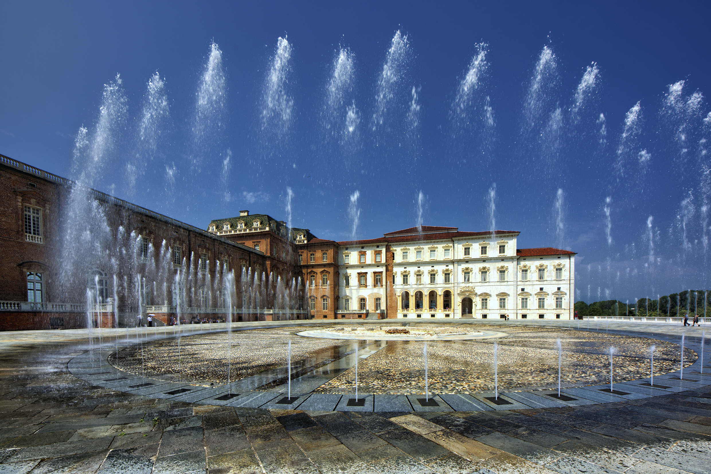 Venaria Reale Castle This is a photo of a monument which is part of cultural heritage of Italy.